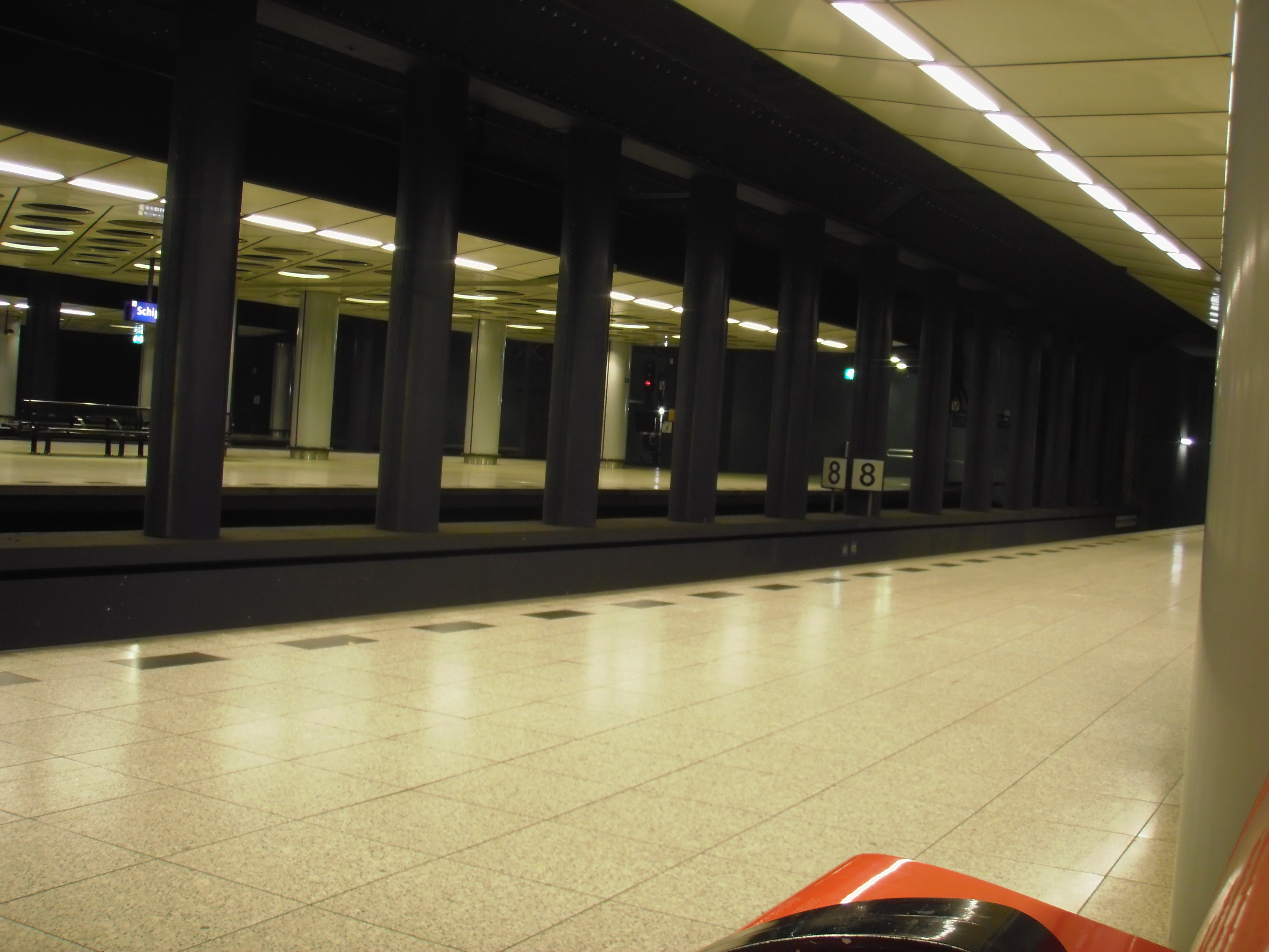 Schiphol train tunnel in Amsterdam, The Netherlands.